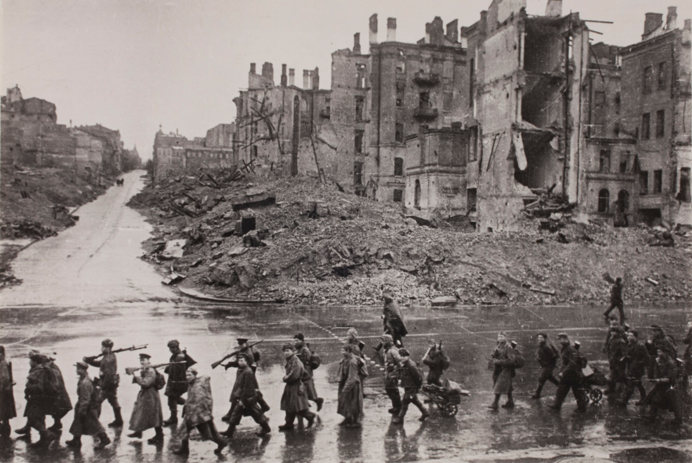 Kiev is liberated from Nazis. The Soviet infantry marching through the main street Kreschatik, November 1943